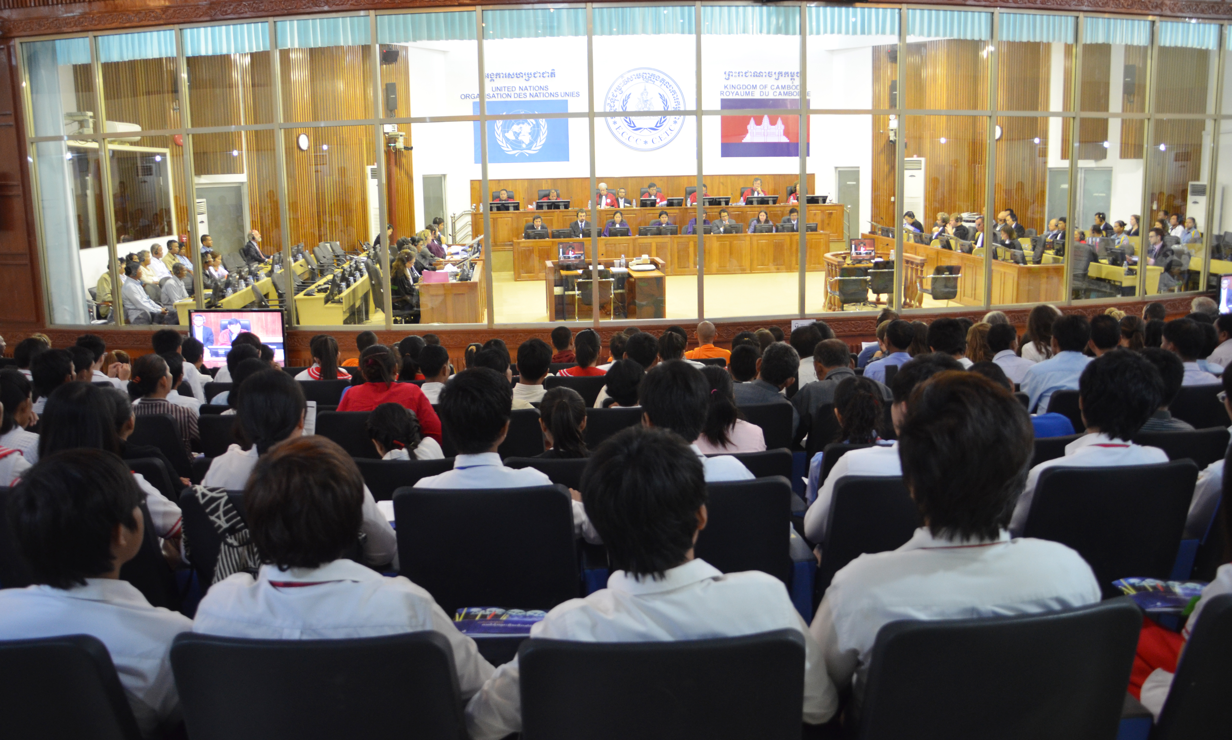 29 Aug 2011: All 482 seats in the public gallery were occupied when the Trial Chamber held a preliminary hearing on Ieng Thirith's and Nuon Chea`s fitness to stand Trial. ... ថ្ងៃទី២៩ ខែសីហា ឆ្នាំ២០១១: កៅអី​ទាំង ៤៨២ នៅ​ក្នុង​សាល​សវនាការ មាន​មនុស្ស​អង្គុយ​ពេញ​ ក្នុង​អំឡុង​សវនាការ​ស្តីអំពី​កាយ​សម្បទា​របស់​លោក នួន ជា និង​លោកស្រី អៀង ធីរិទ្ធ នៅ​ចំពោះ​មុខ​អង្គ​​ជំនុំ​ជម្រះ​សាលា​ដំបូង។